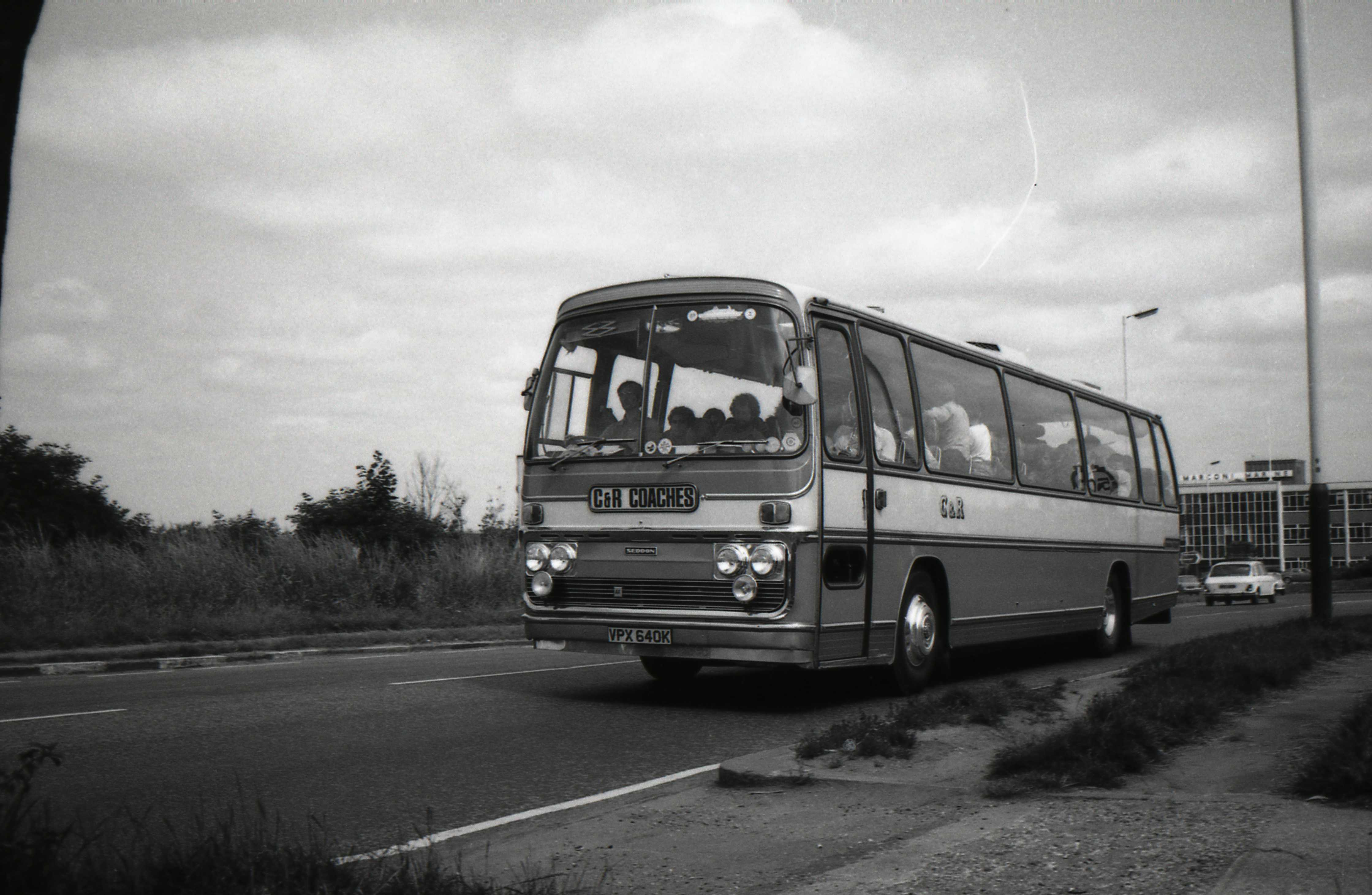 C and R coaches of Little Tey bought this Seddon Pennine with Plaxton bodywork from Gale of Haslemere. Photographed c 1978 in Chelmsford. The early 1960s offices of Marconi International Marine behind the coach have vanished, along with practically all the major manufacturing industries in the town. It was thought that banking and finance were all that were needed for a healthy economy. The R in C&R coaches belonged to an early partner, NW Raven, from c. 1960 who left the partnership with RJ Copeman, but his initial remained. VPX 640K was new to Gale of Haslemere